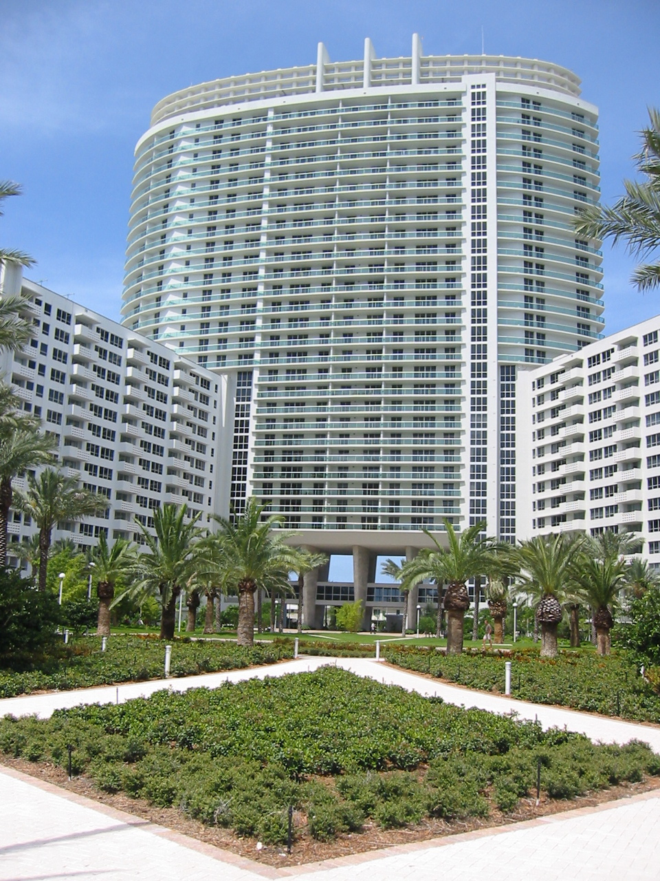 The Flamingo South Beach apartments as seen from Biscayne Bay seawall. Photo by Christopher Todd, 07/07/2003